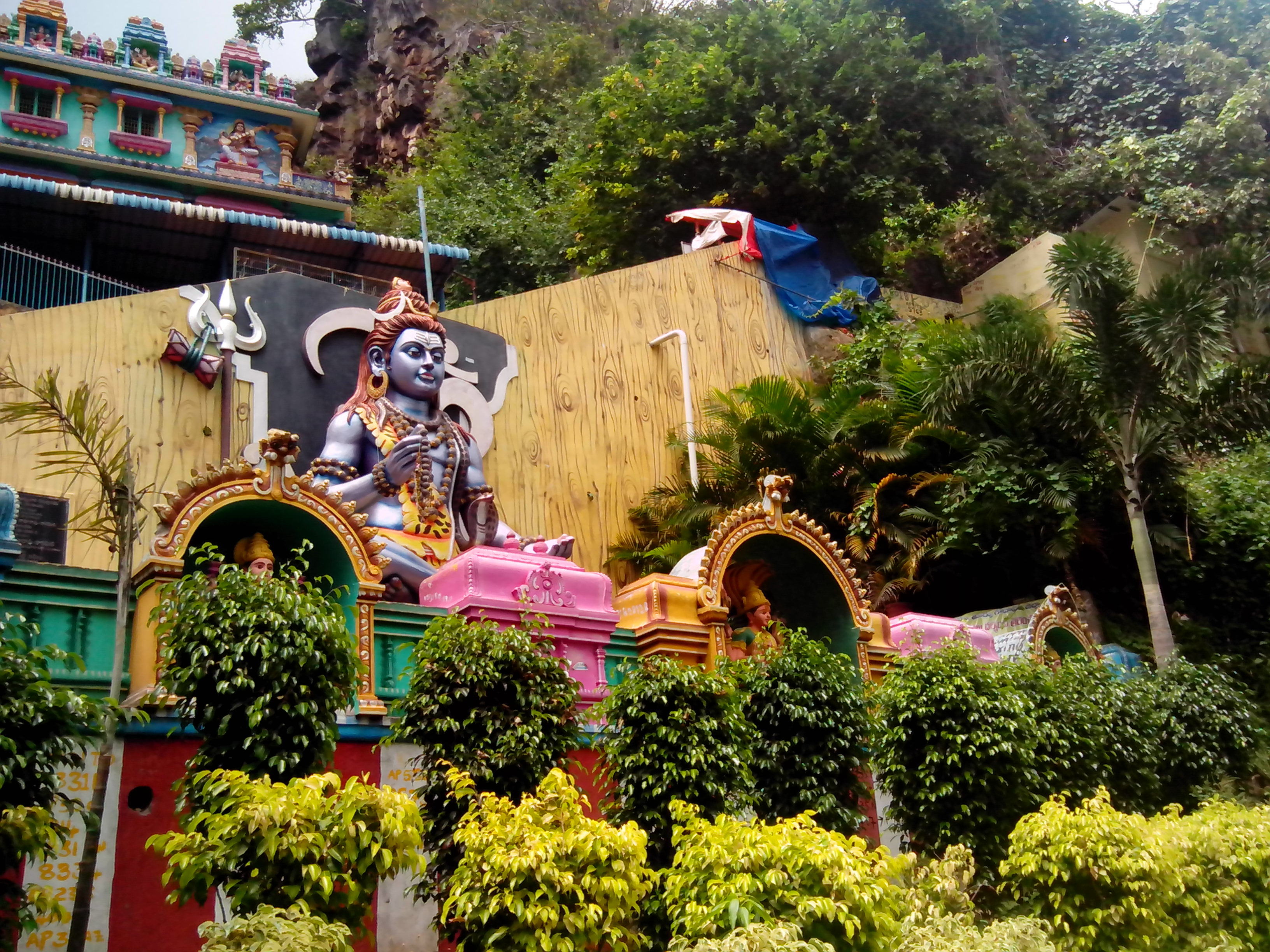 Statue of Lord Shiva at Talupulamma Lova Temple, Tuni, East Godavari